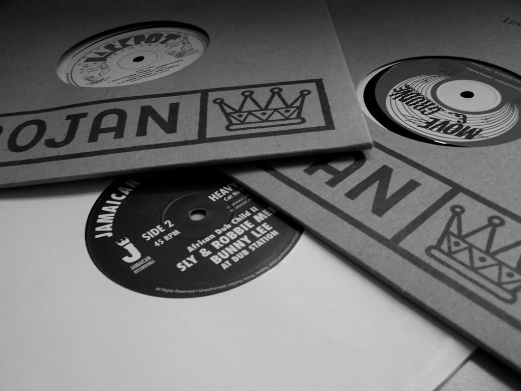 Collection of Trojan Records LP's